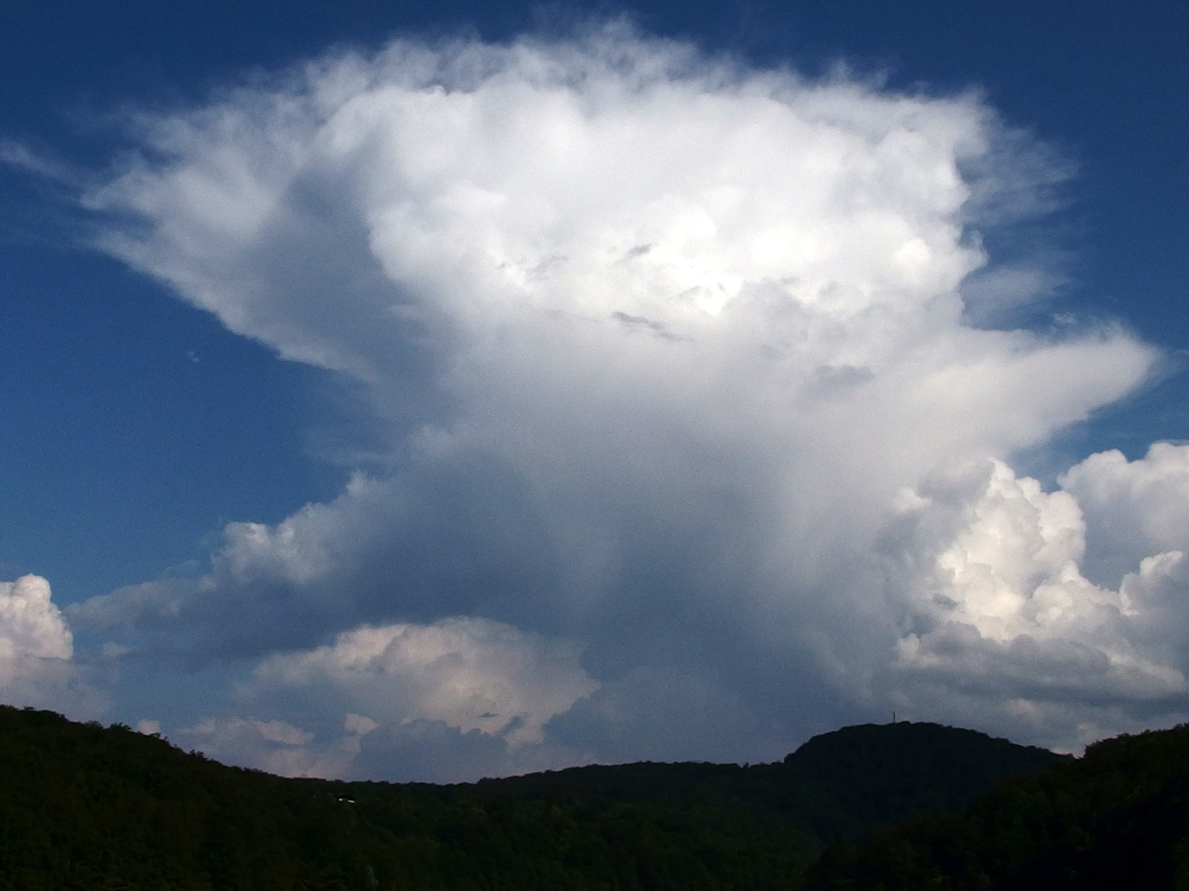 2013-06-08 in Plitvice Lakes National Park.